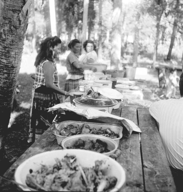 Local call number: Pe0156 Title: Seminole Indian Thanksgiving Meal Personal author: Peithmann, Irvin M. Date: mid-1950s Physical descrip: 1 photonegative: b&w; 2 1/2 x 2 1/2 in. Series Title: Irvin M. Peithmann Collection General Note: "Wild turkey, venison & pie"--back of photoprint. Repository: State Library and Archives of Florida, 500 S. Bronough St., Tallahassee, FL 32399-0250 USA. Contact: 850.245.6700. Persistent URL